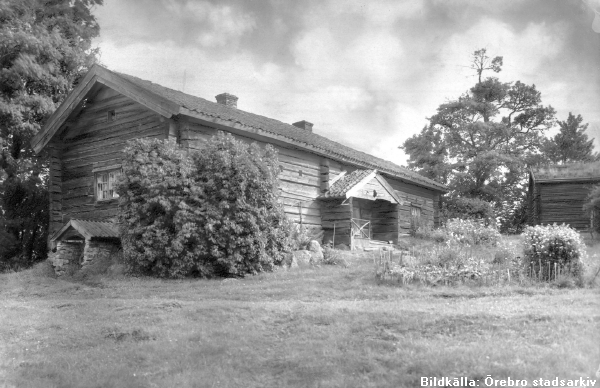 The old farm Kullängsstugan near Askersund, Sweden